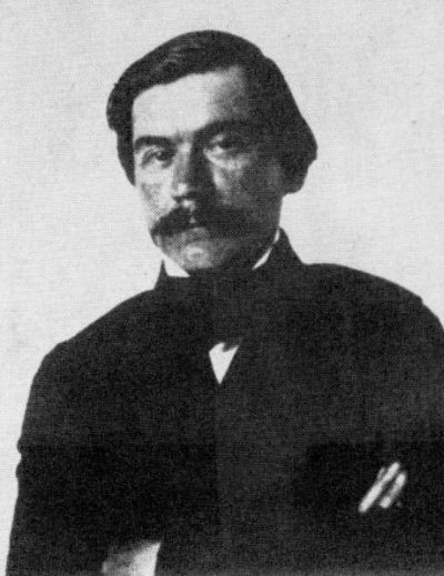 Ljubomir Nenadović, writer, portrey 1851, talbotype, negative, India ink, 21 x 16,2. Museum of Belgrade, Work of Anastas Jovanović, originally uploaded by PetarM on sr.wikipedia